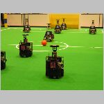 begining of a game of Robocupsoccer middle size league - Robocup 2004 source: self-made